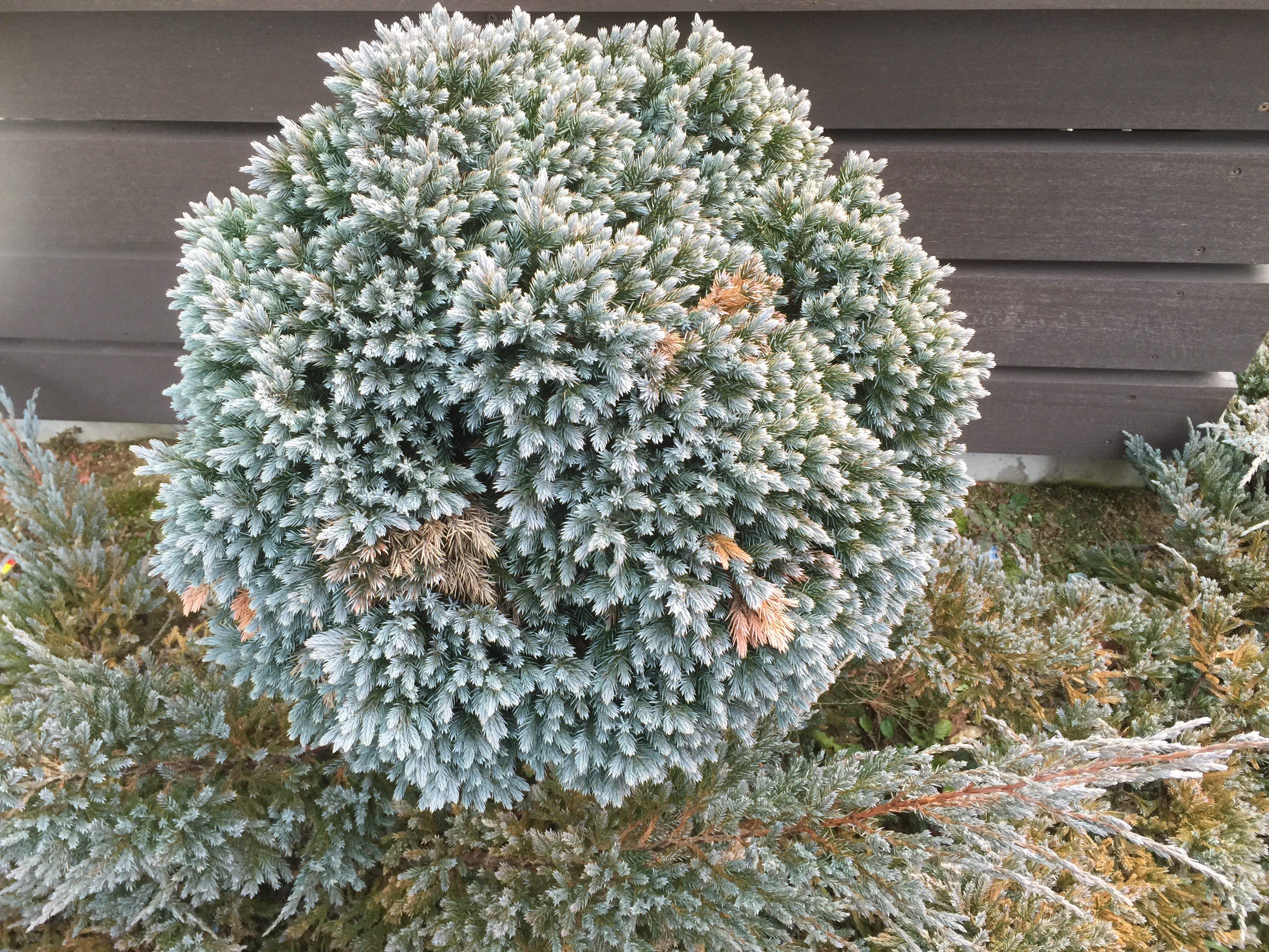 Juniperus squamata 'Blue star'